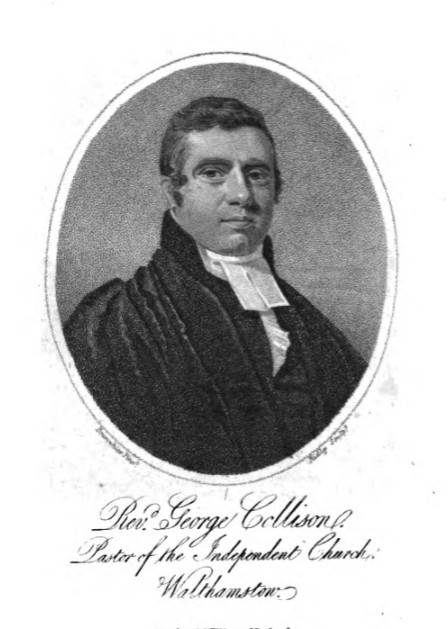 Portrait of George Collison (1772–1847), English Congregationalist and educator. From Evangelical Magazine, March 1811.